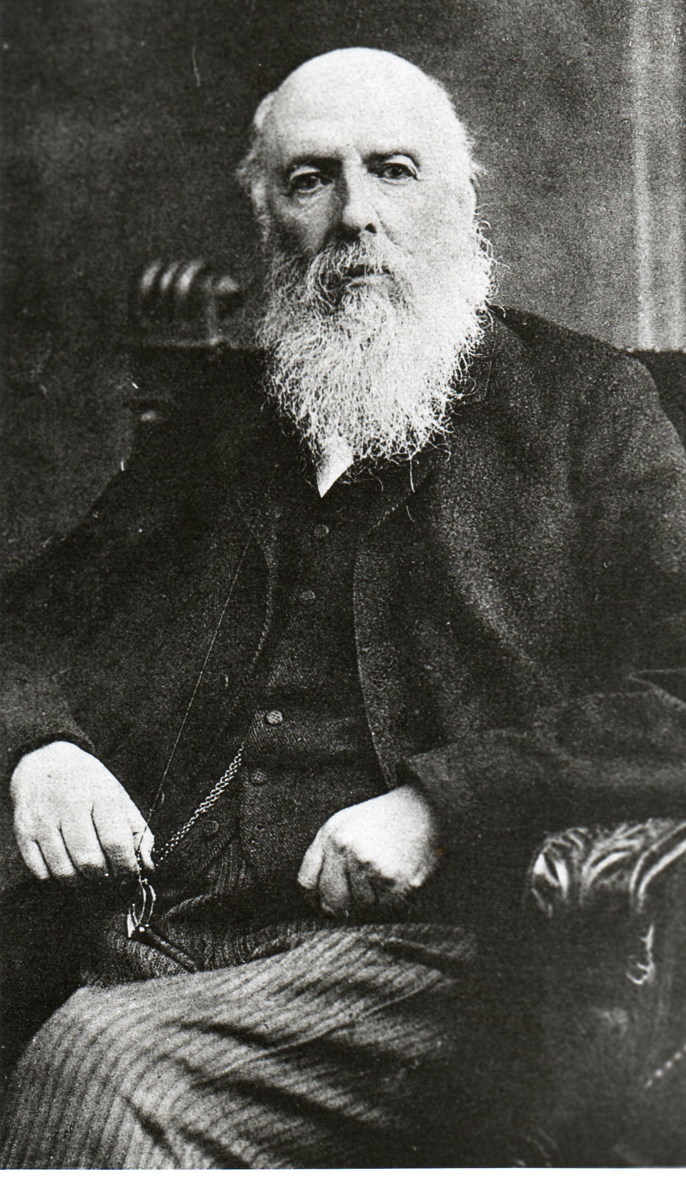 Portrait